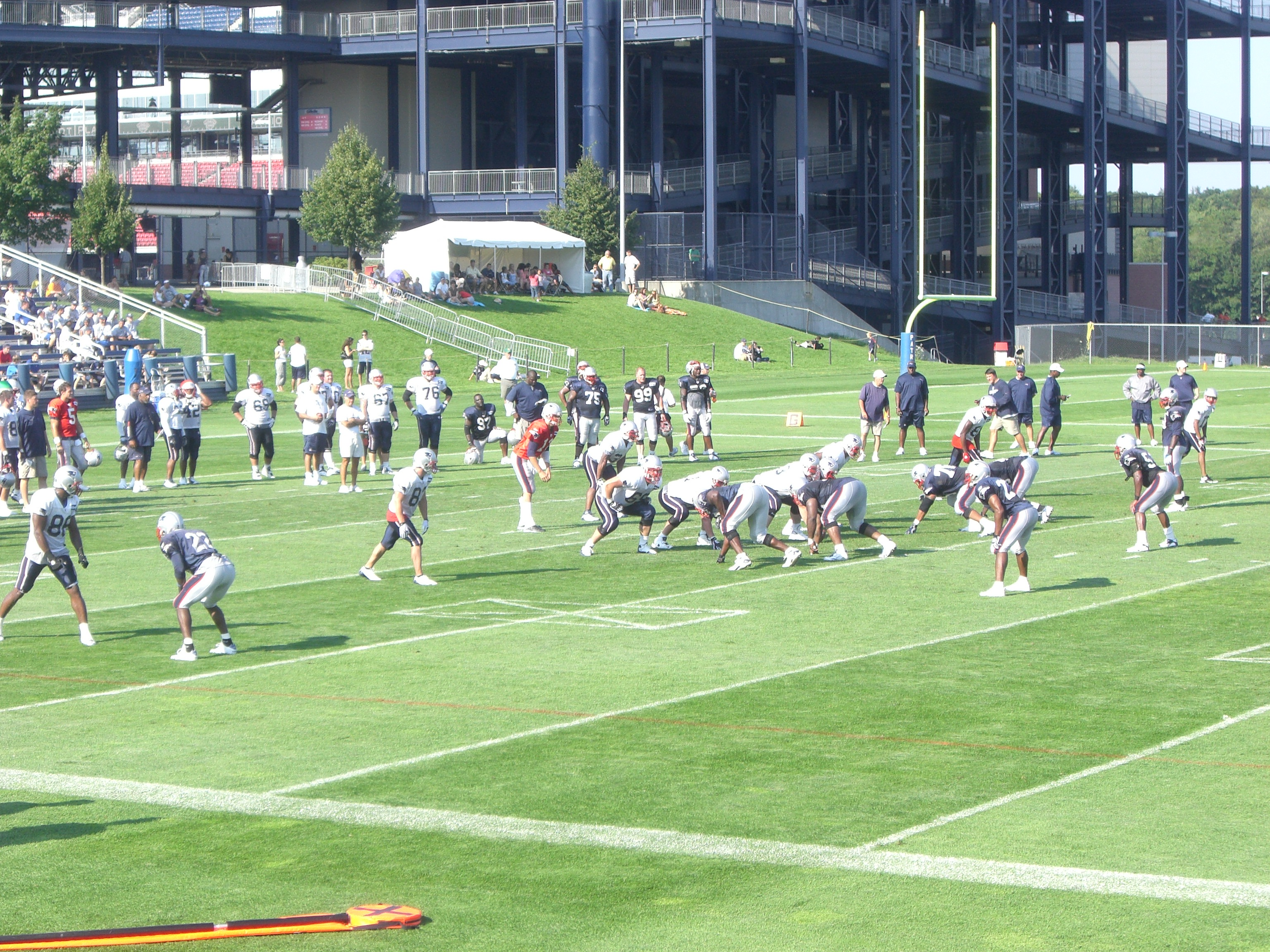 Patriots are practicing outside the Gillette Stadium.